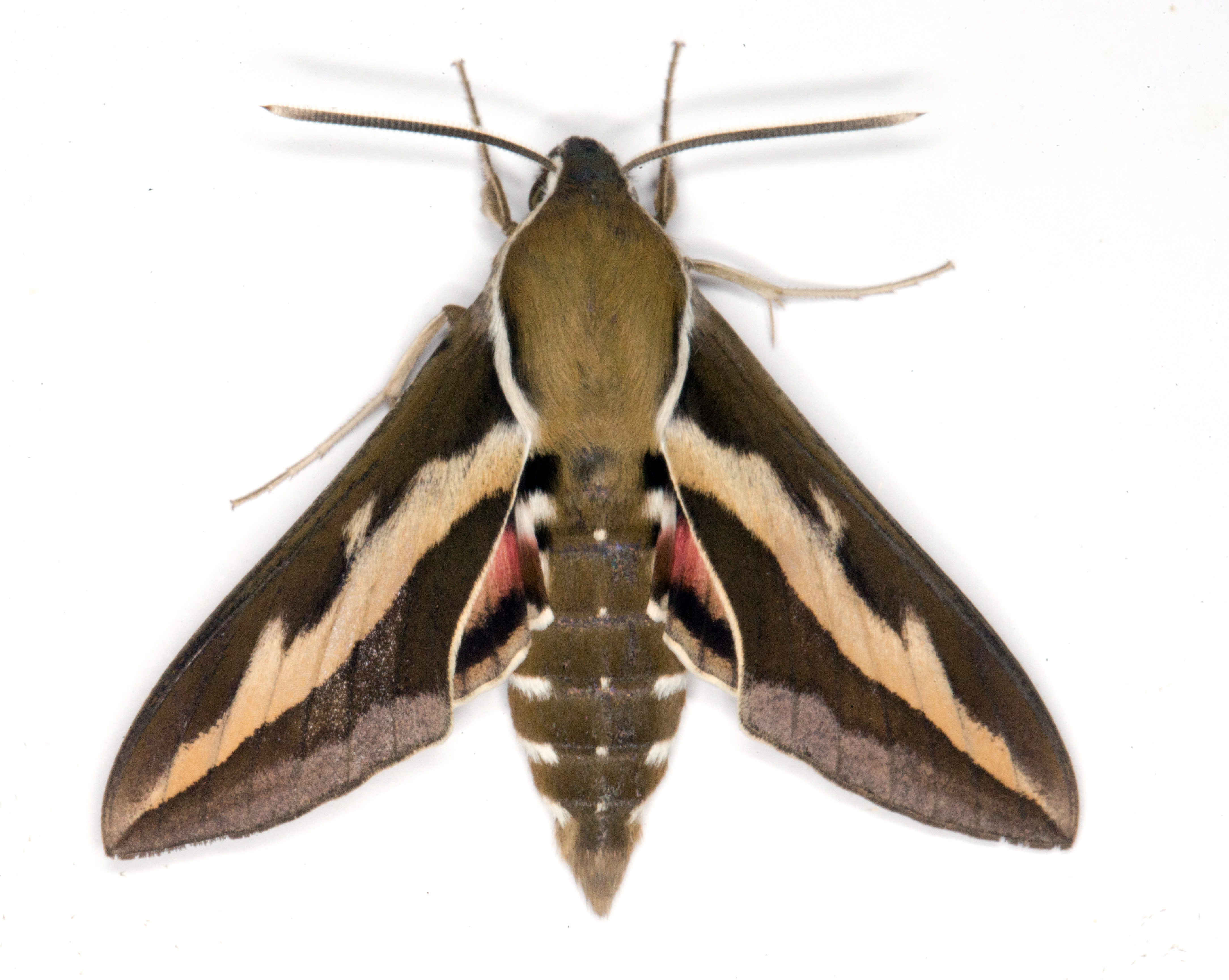 Hyles gallii The Bedstraw Hawk-moth, Lodz(Poland)